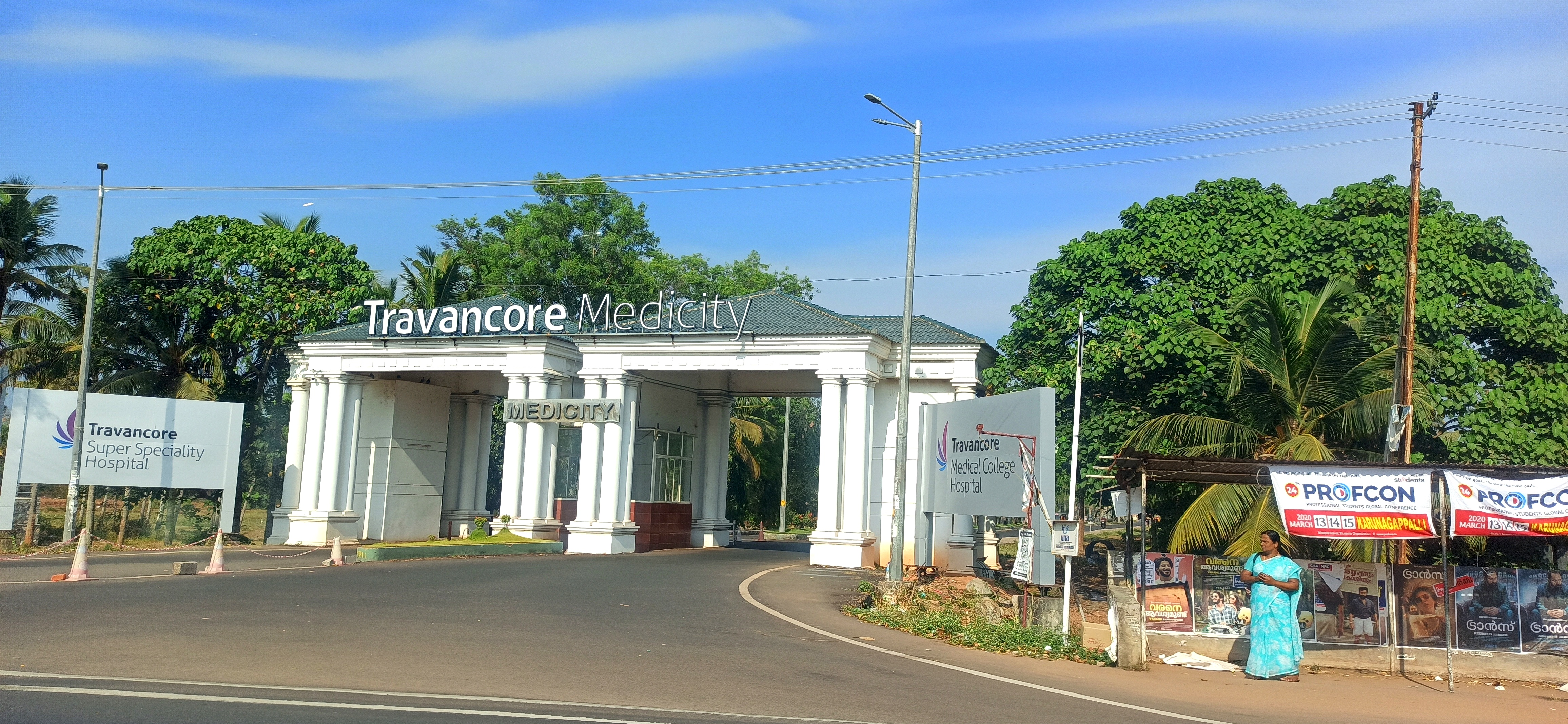 Travancore Medical College Hospital or Travancore Medicity Medical College is one of the premier self-financing medical colleges situated in the city of Kollam.